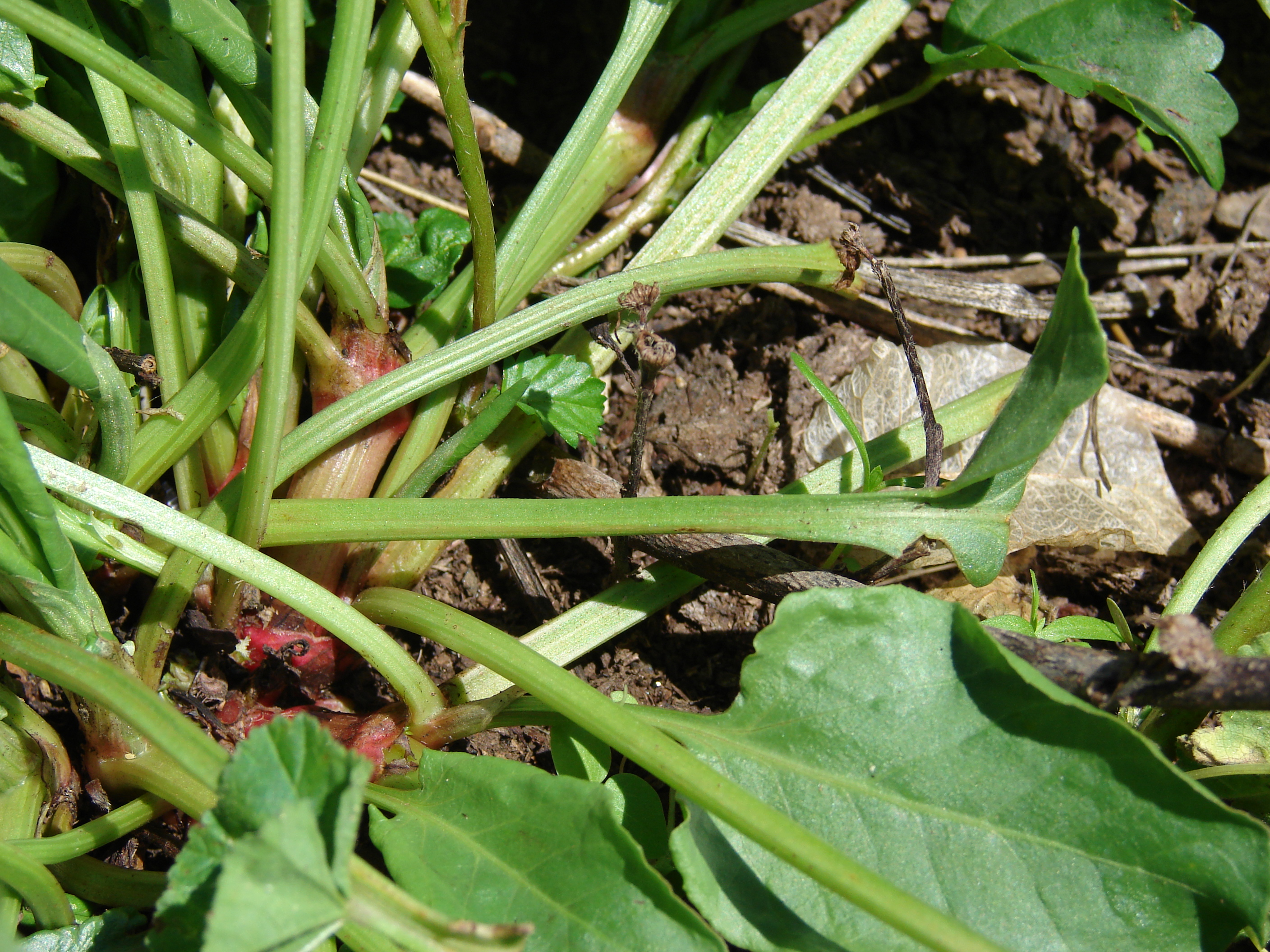 Emex spinosa (stem). Location: Maui, Kanaio